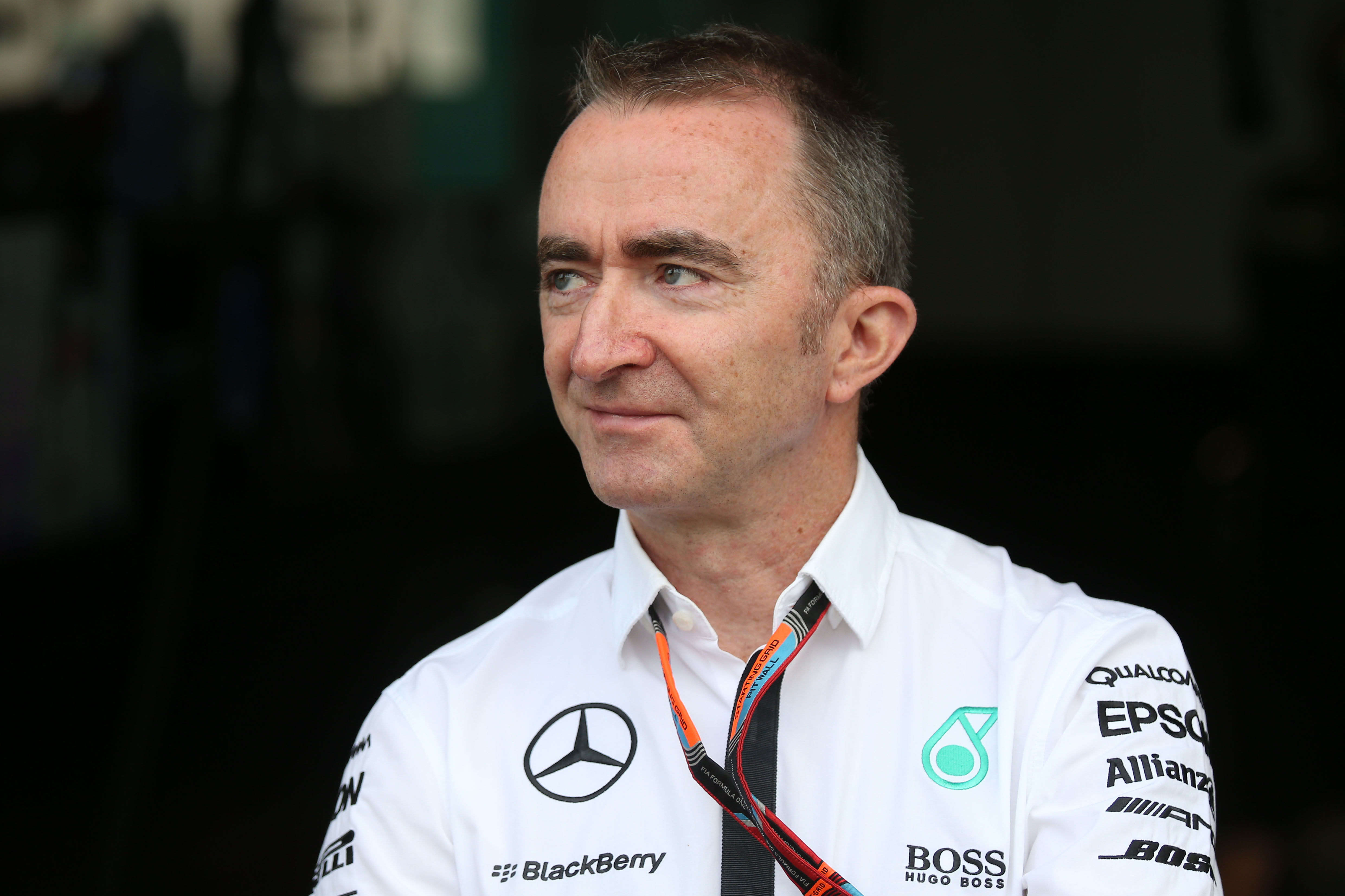 Paddy Lowe